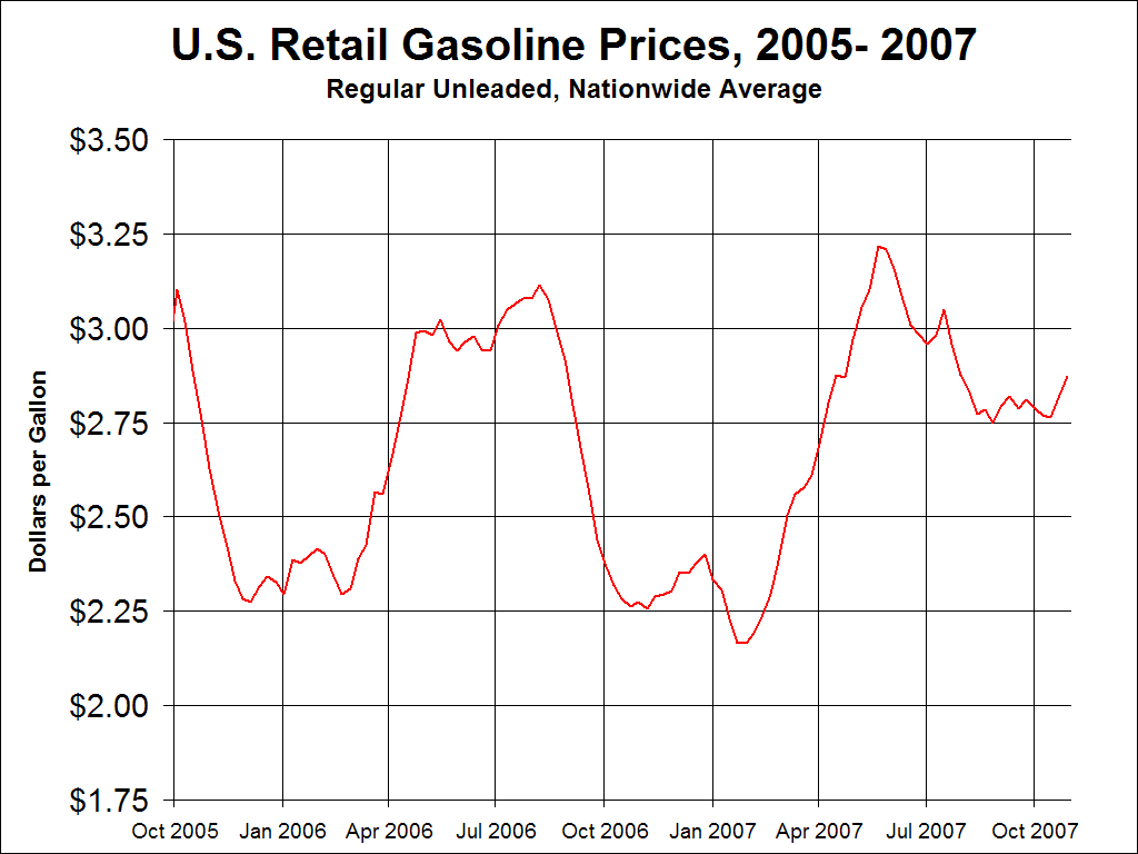 Short-term (two-year) chart showing average gasoline prices in the United States. Data is for regular-grade unleaded gasoline, taken at one-week intervals and averaged nationwide. Prices are nominal (not adjusted for inflation). Prepared from data at the U.S. Department of Energy.